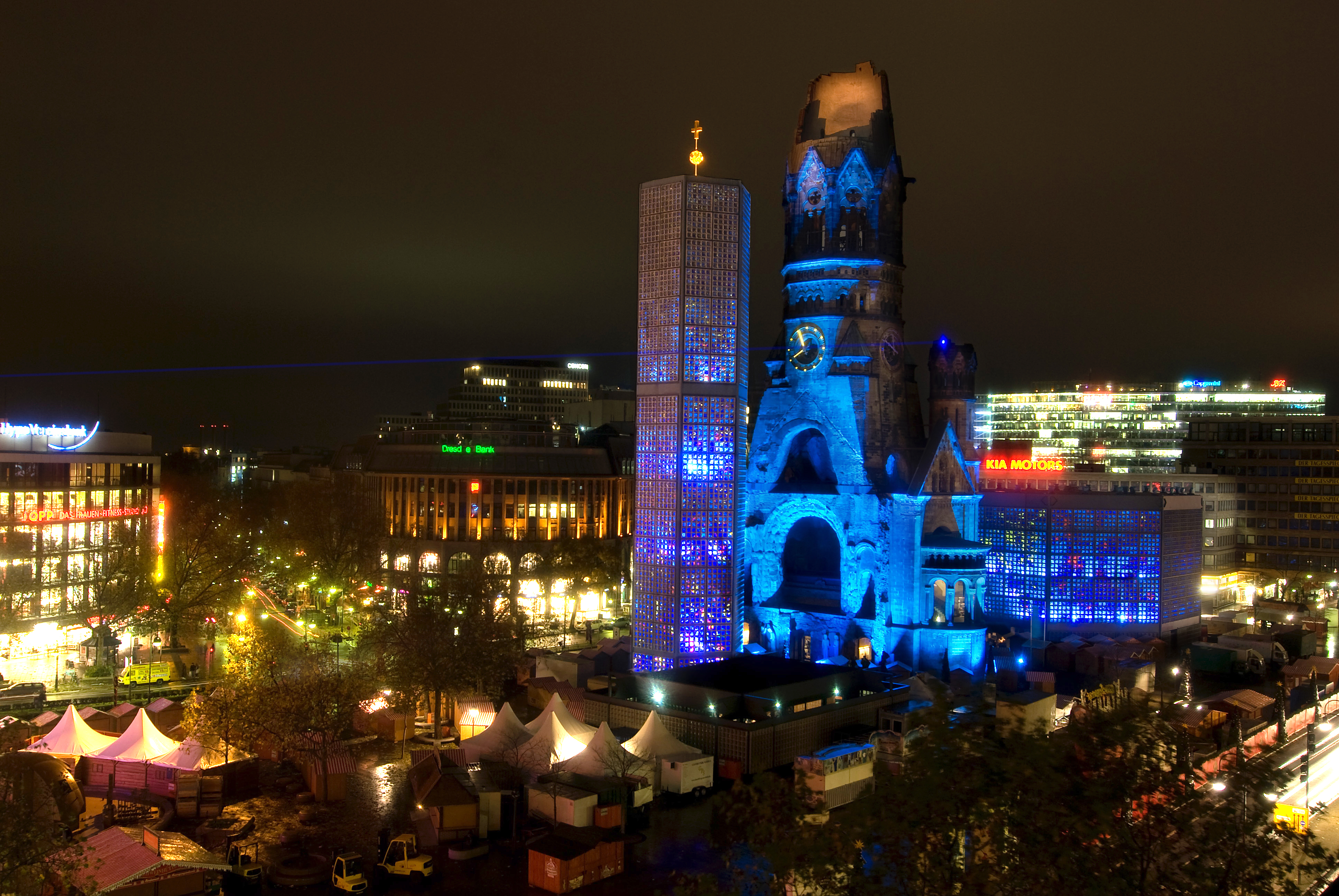 The Berlin entry to the Blue Monument Challenge at World Diabetes Day 2008. Light artist Oliver Bienkowski lighted up the Kaiser Wilhelm Memorial Church with blue light and installed a laser beam. At the Breitscheidplatz around the church the christmas market 2008 is under construction.